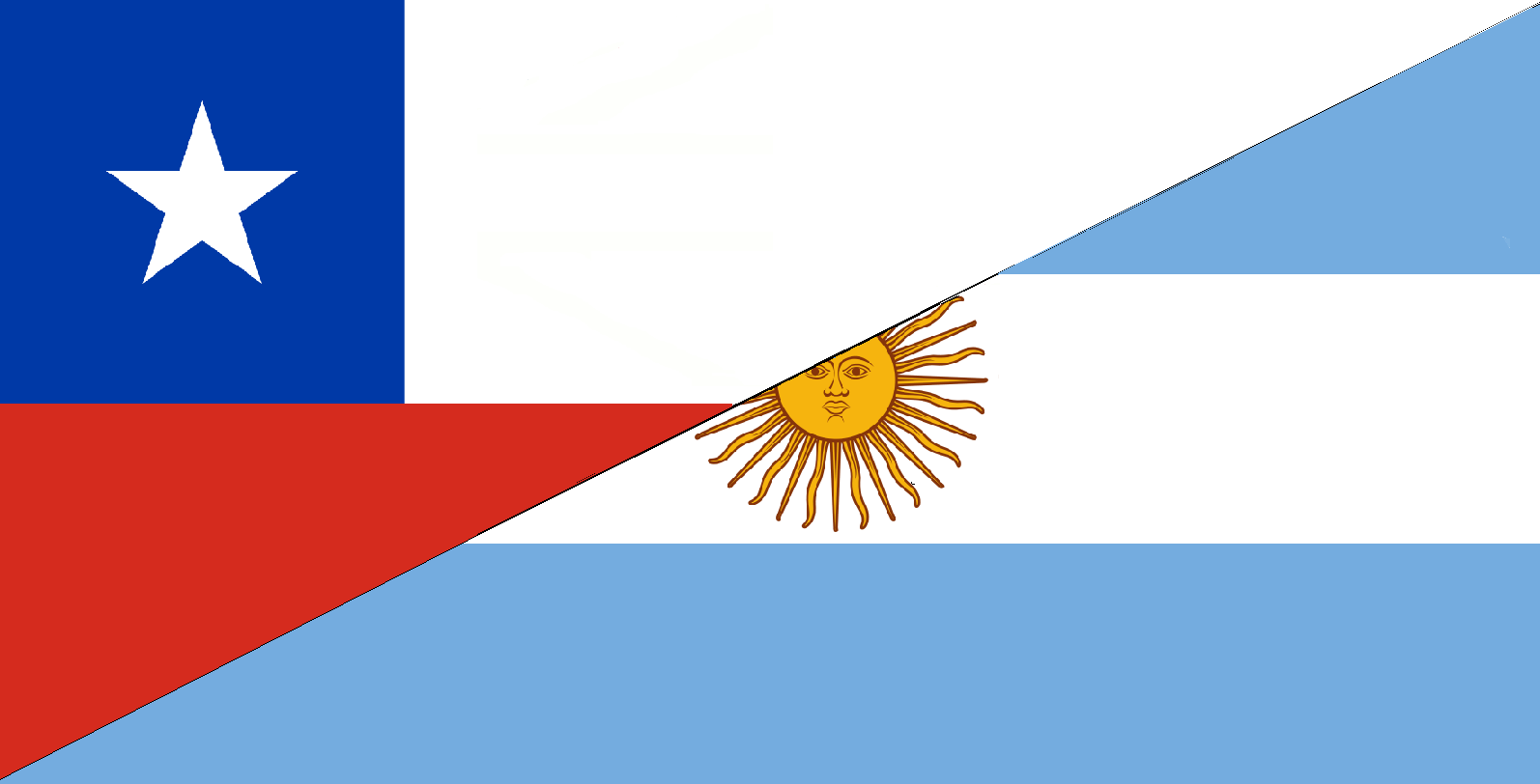 United flags of Argentina and Chile.